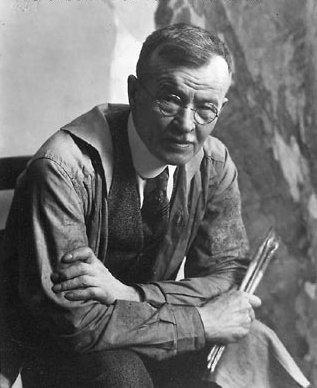 Carl Rungius, wildlife artist. Taken in Banff, Alberta, Canada.